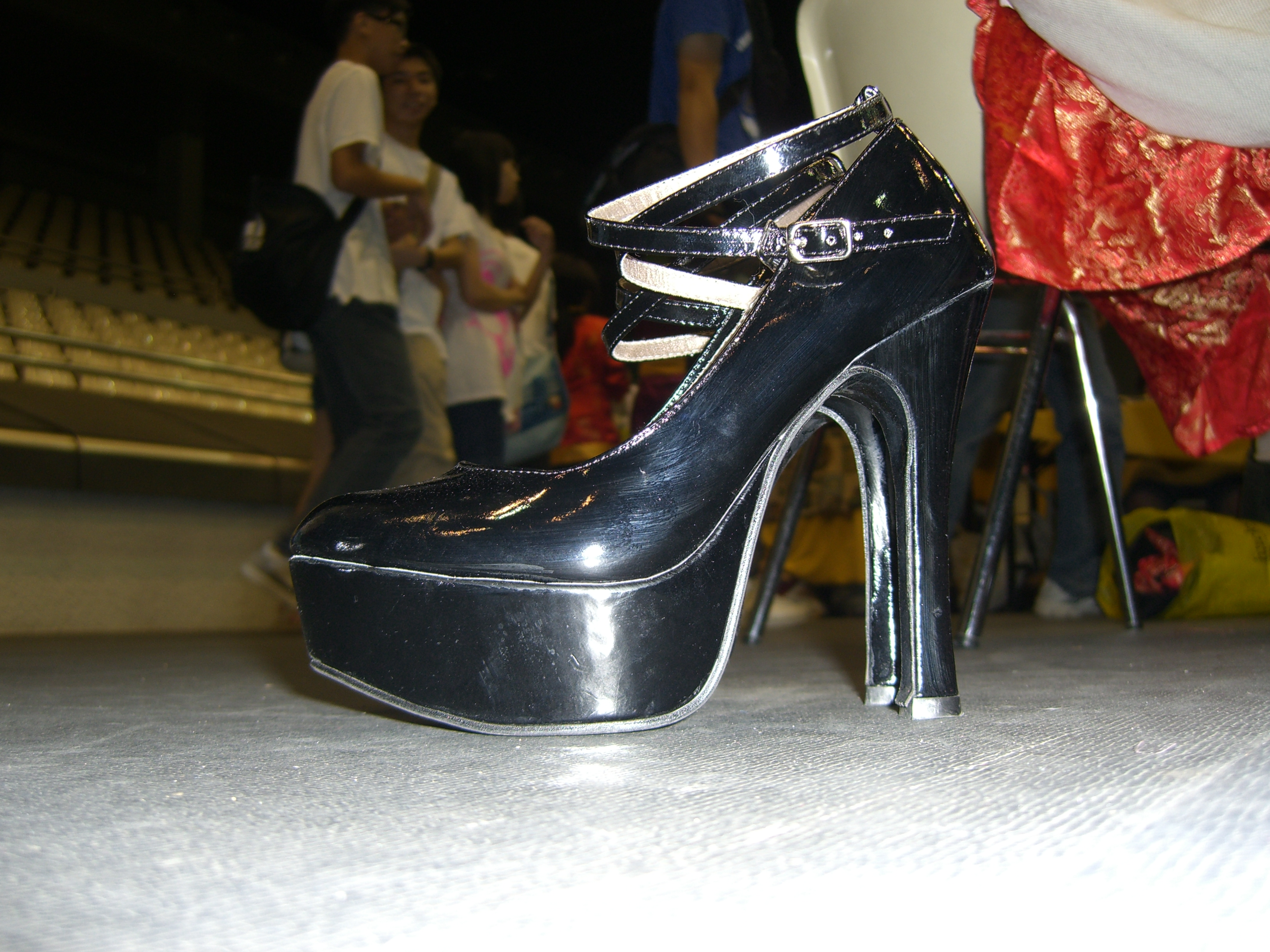 A pair of circular-head pumps in black leather with circular ankle straps, 4 cm (1.57") height toe caps and and 13 cm (5.12") stiletto heels